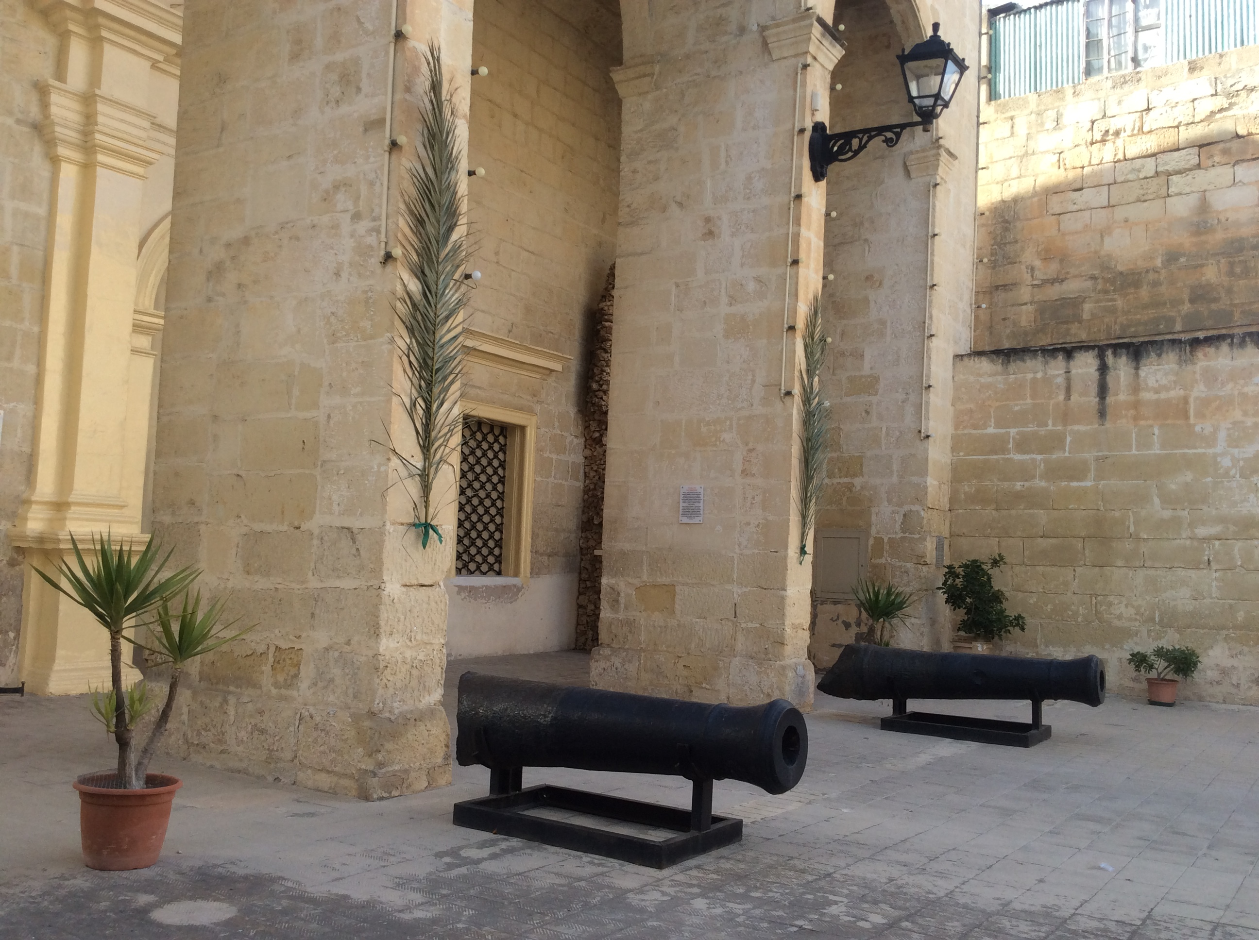 Our Lady of Antocia Chapel and canons